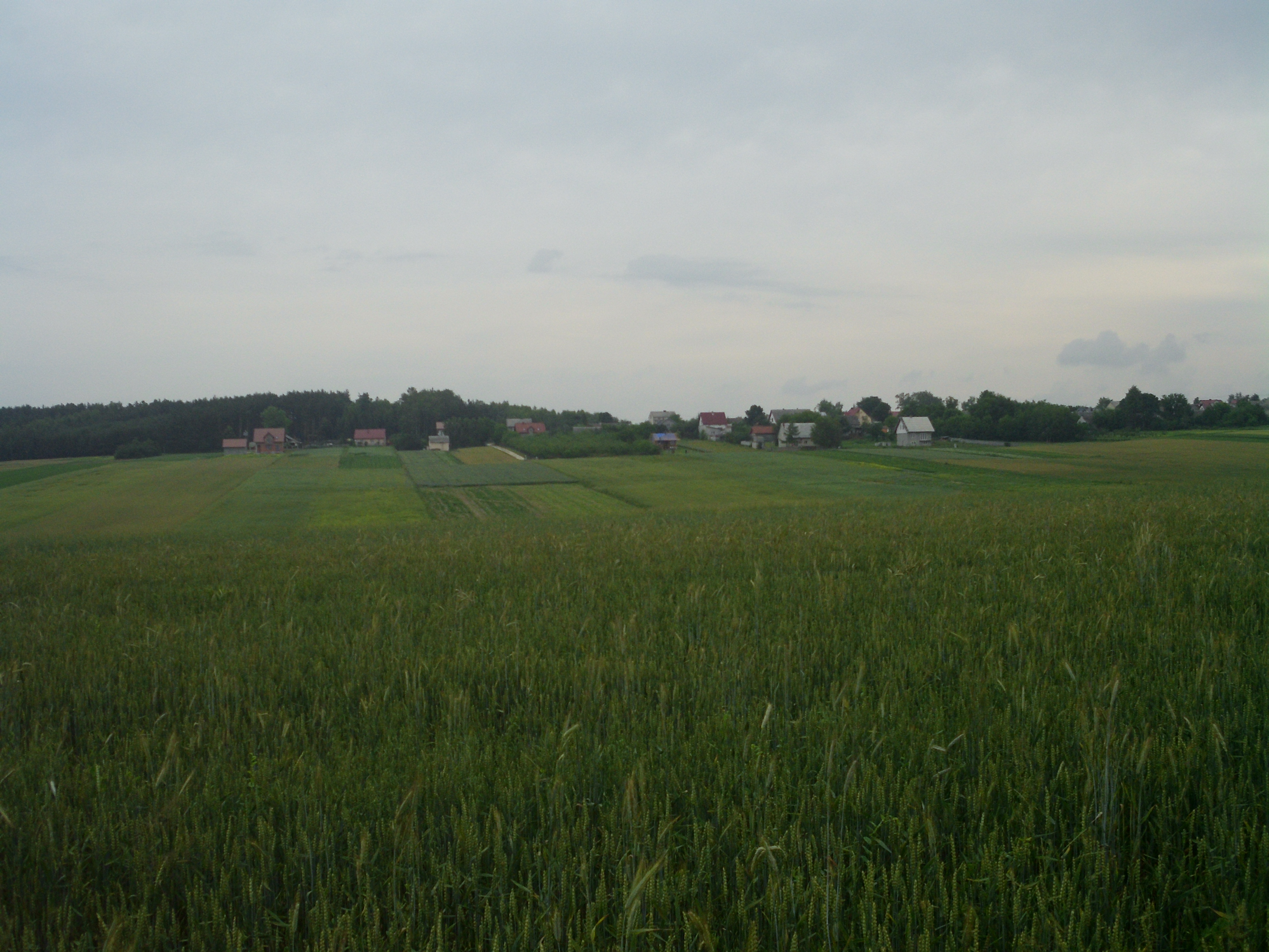 Distant view of Górki village in Pińczów County, Poland